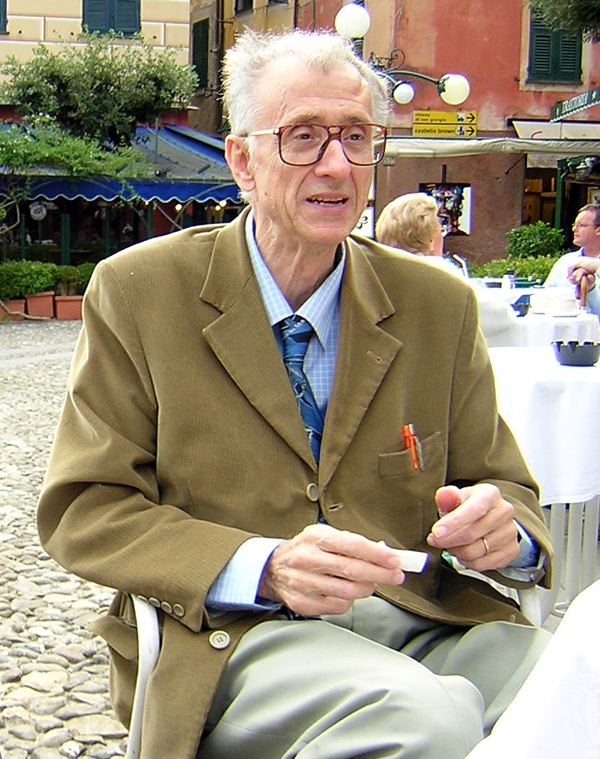 Portrait of Prof. Tiziano Mannoni in 2003.10.11